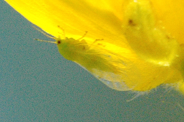 Picture taken in Commanster, Belgian High Ardennes . Species: Psylla alni